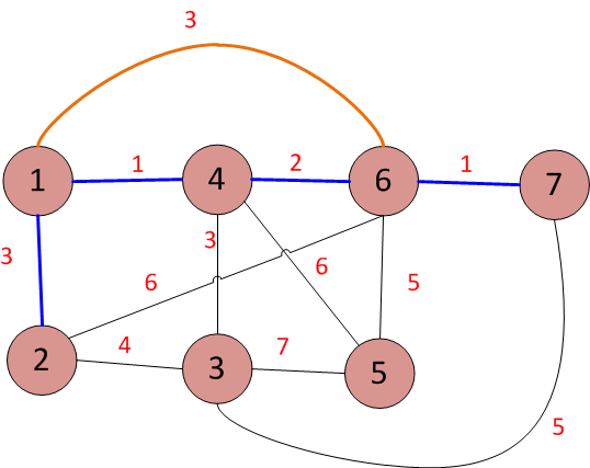 step 5 for debug Kruskal